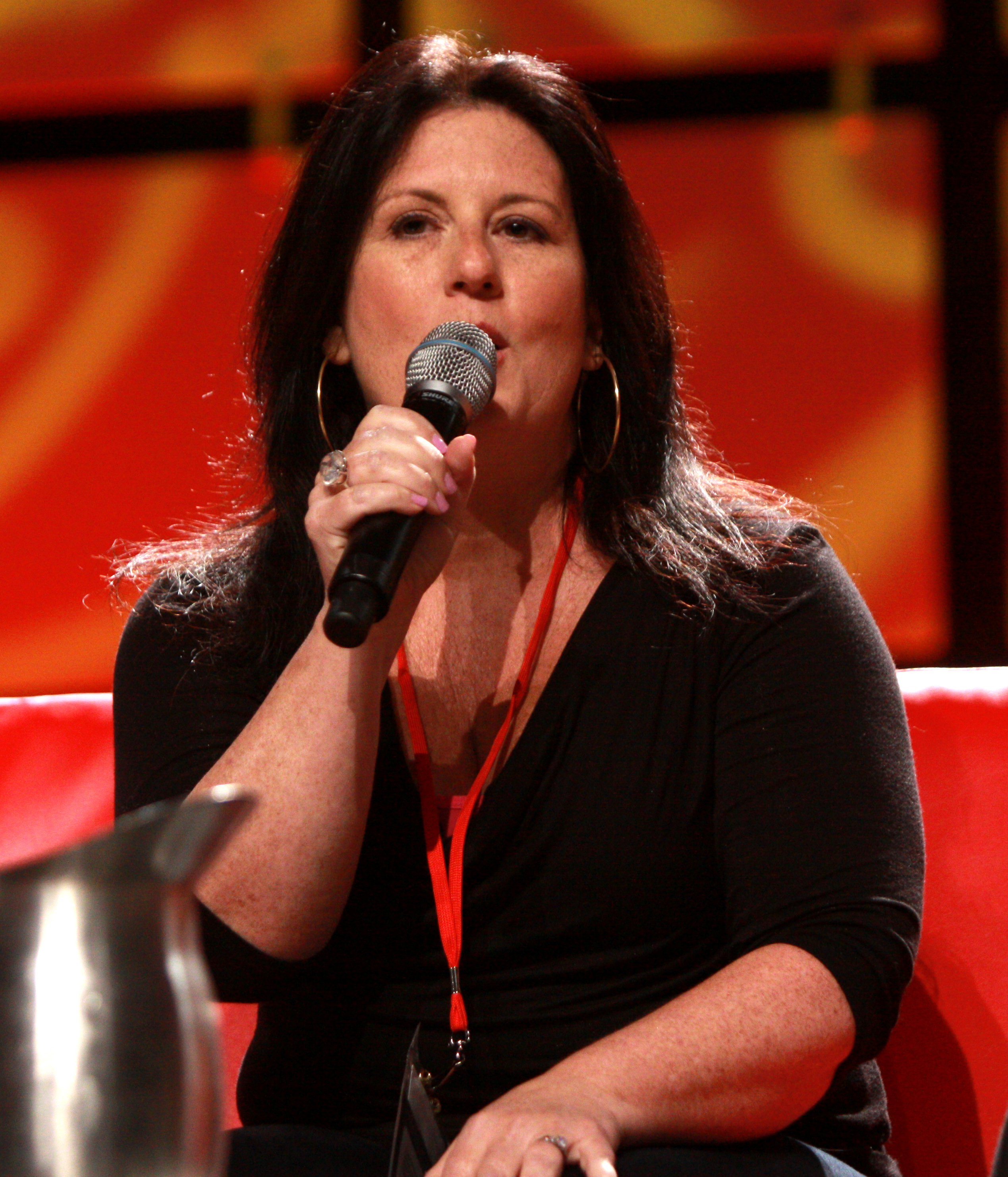 Sandy Fox at the 2013 Phoenix Comicon in Phoenix, Arizona.